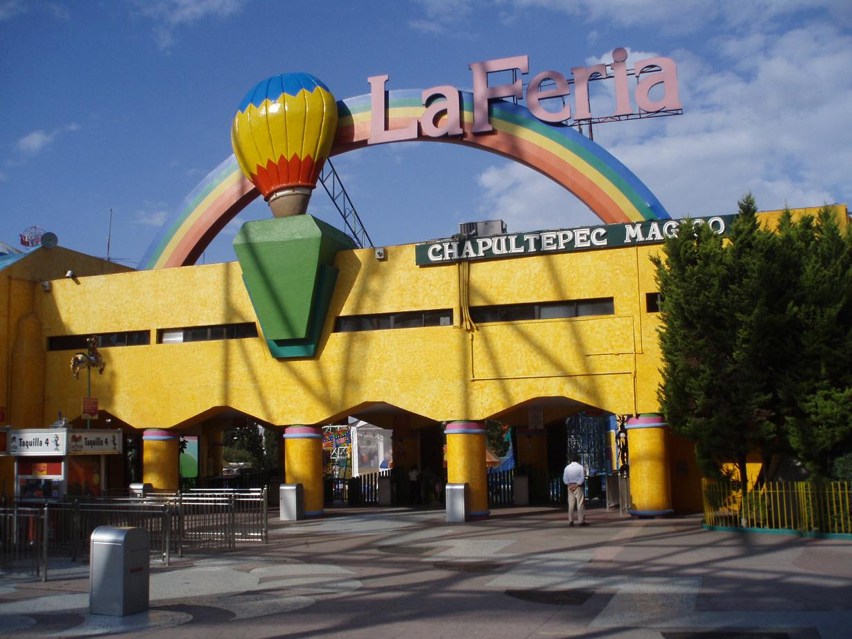 La Feria Chapultepec Magico in Mexico City, Mexico